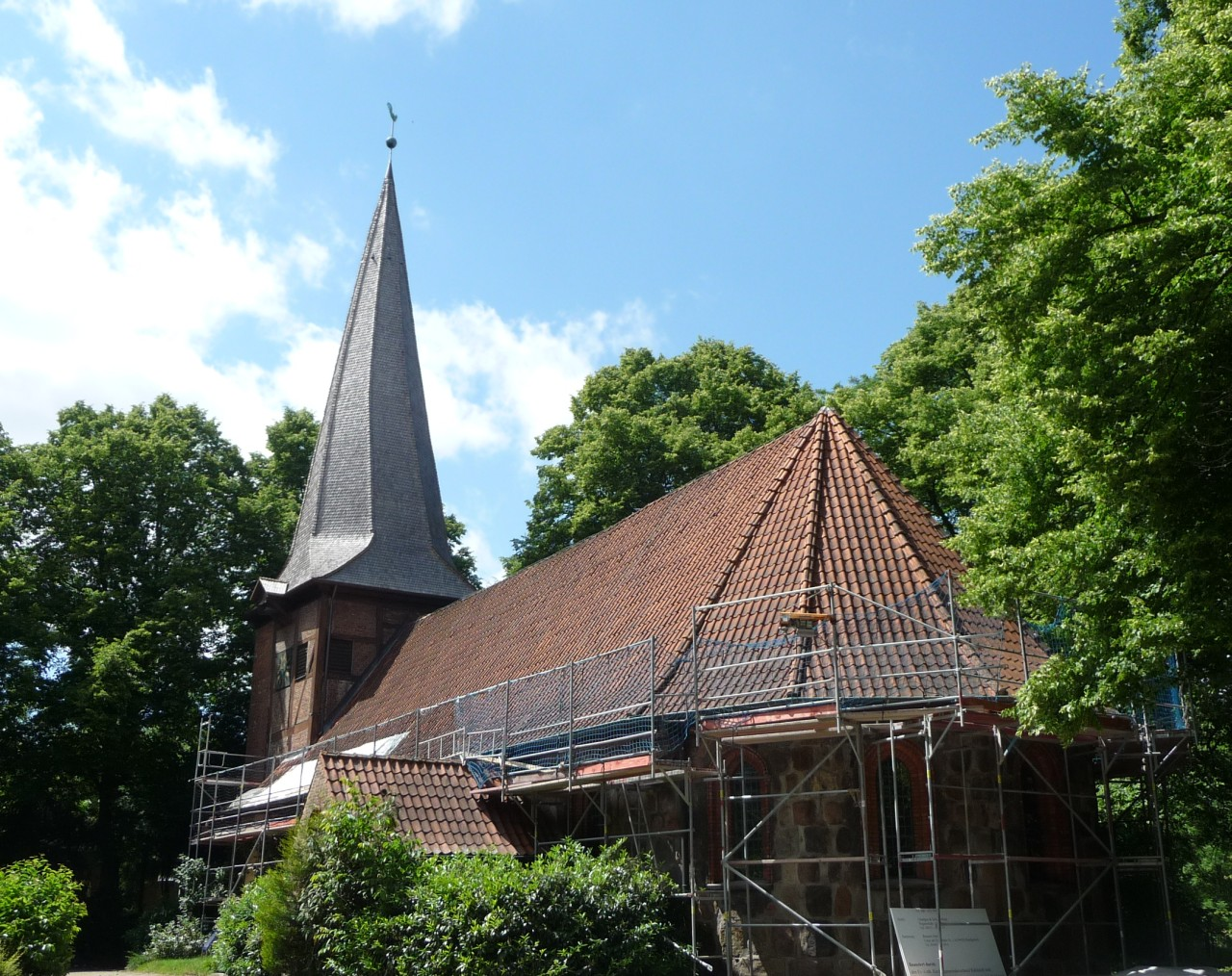 oldest church in Hamburg-Rahlstedt